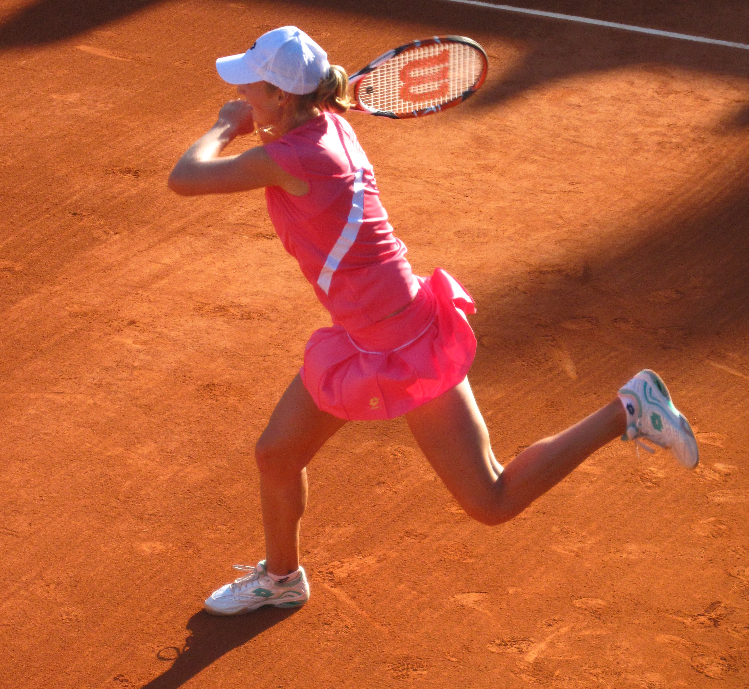 Ekaterina Makarova at 2009 Roland Garros, Paris, France